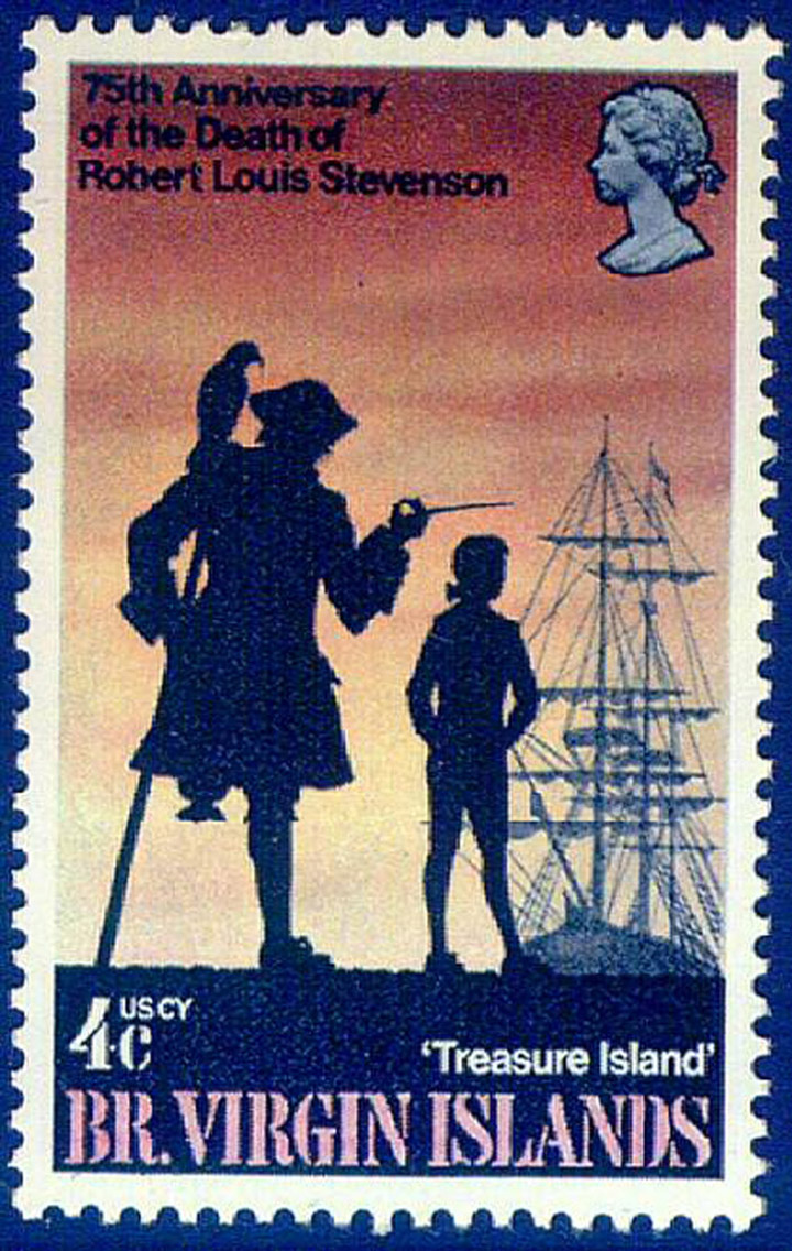 The set of four "Treasure Island" stamps issued in 1969 includes this 4c value depicting pirate ship, Jim Hawkins and Long John Silver